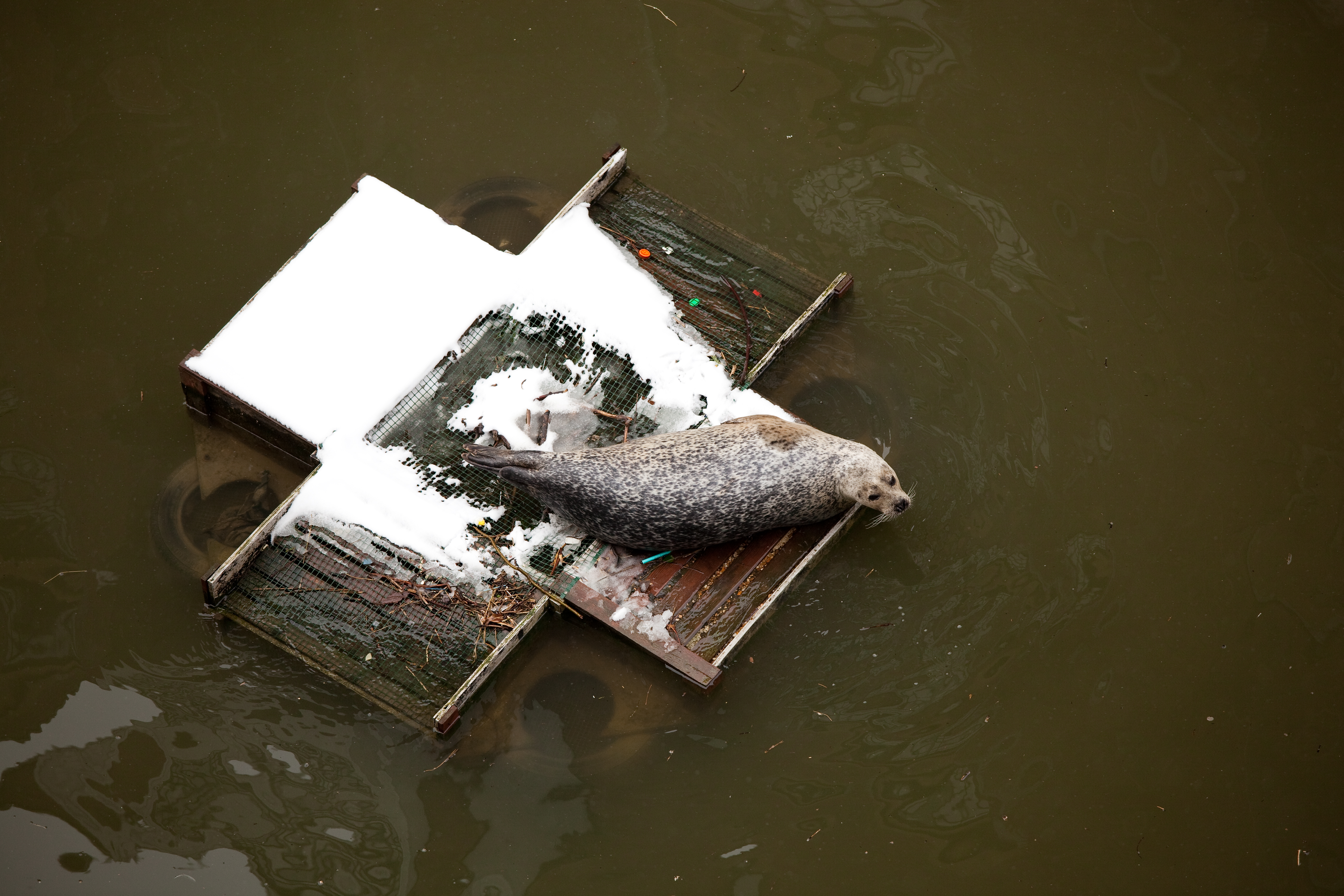 A seal sits on a bird feeding platform on St. Saviour's Dock, London, in 2010.